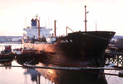 Julie N oil spill clean up